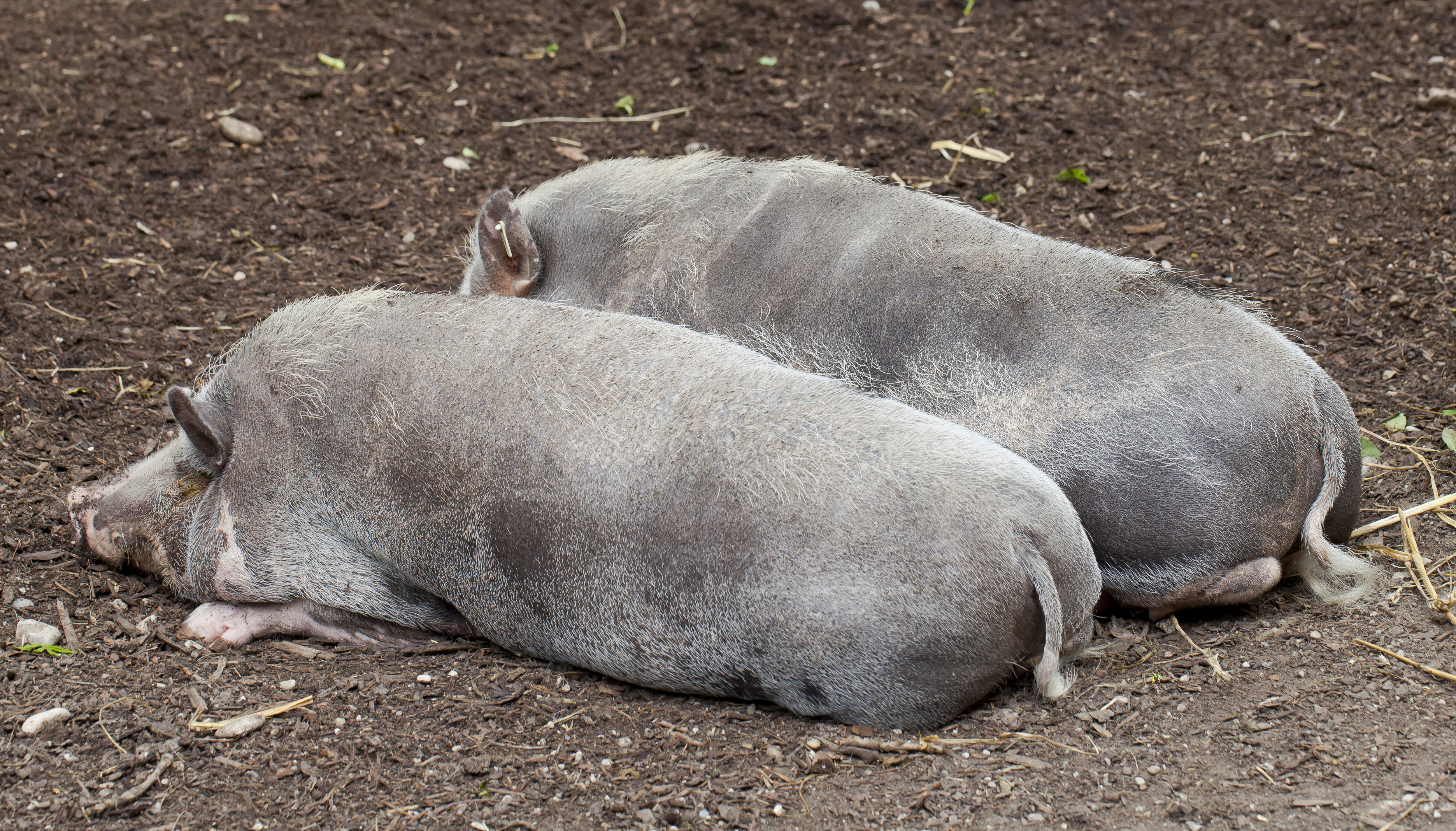 Turopolje pig, Tierpark Hellabrunn, Munich, Germany